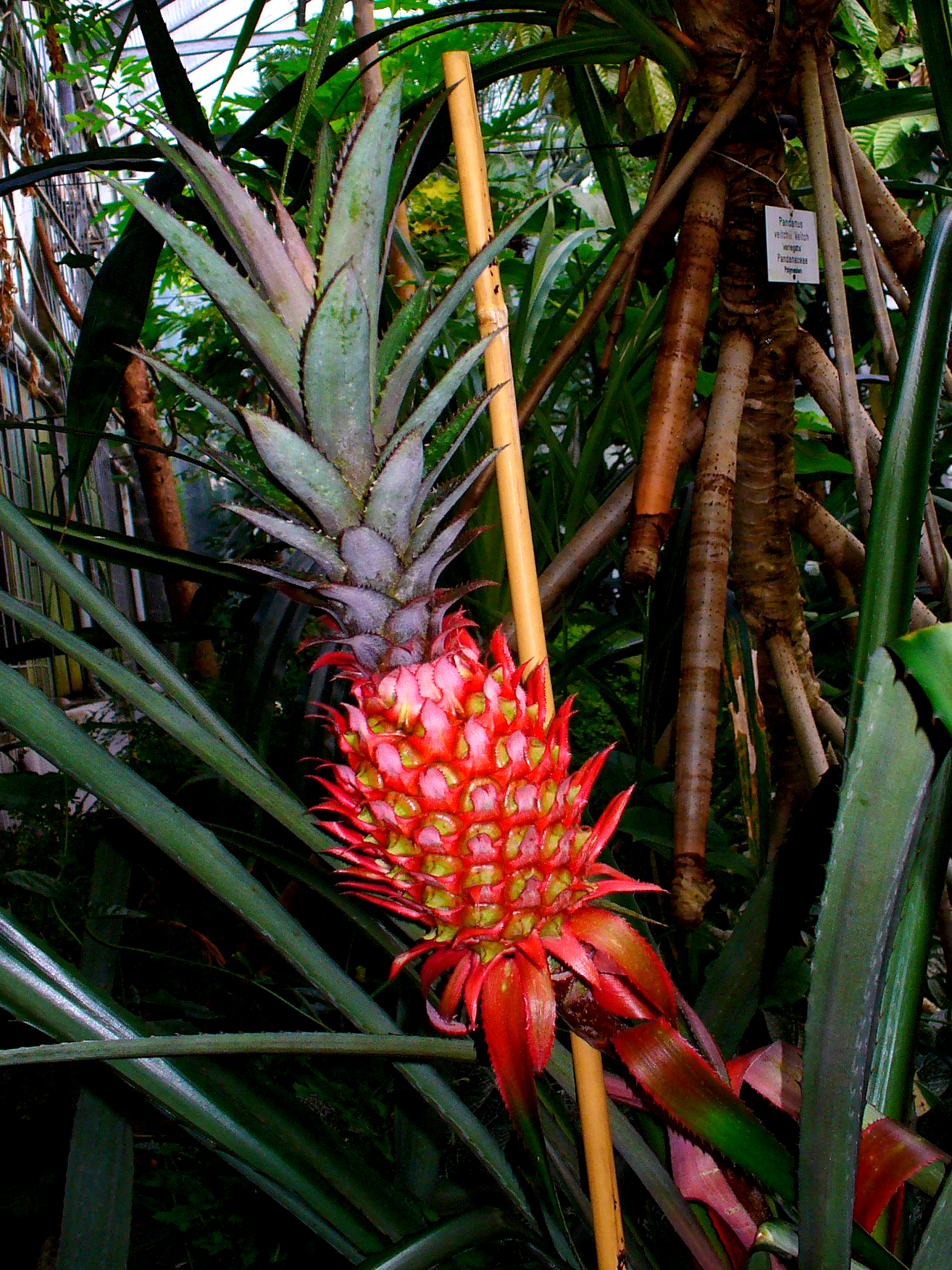 Ananas comosus, Bromeliaceae, Pineapple, developping infrutescence; Botanical Garden KIT, Karlsruhe, Germany. The plant is used in homeopathy as remedy: Ananas sativus (Anana-c.)